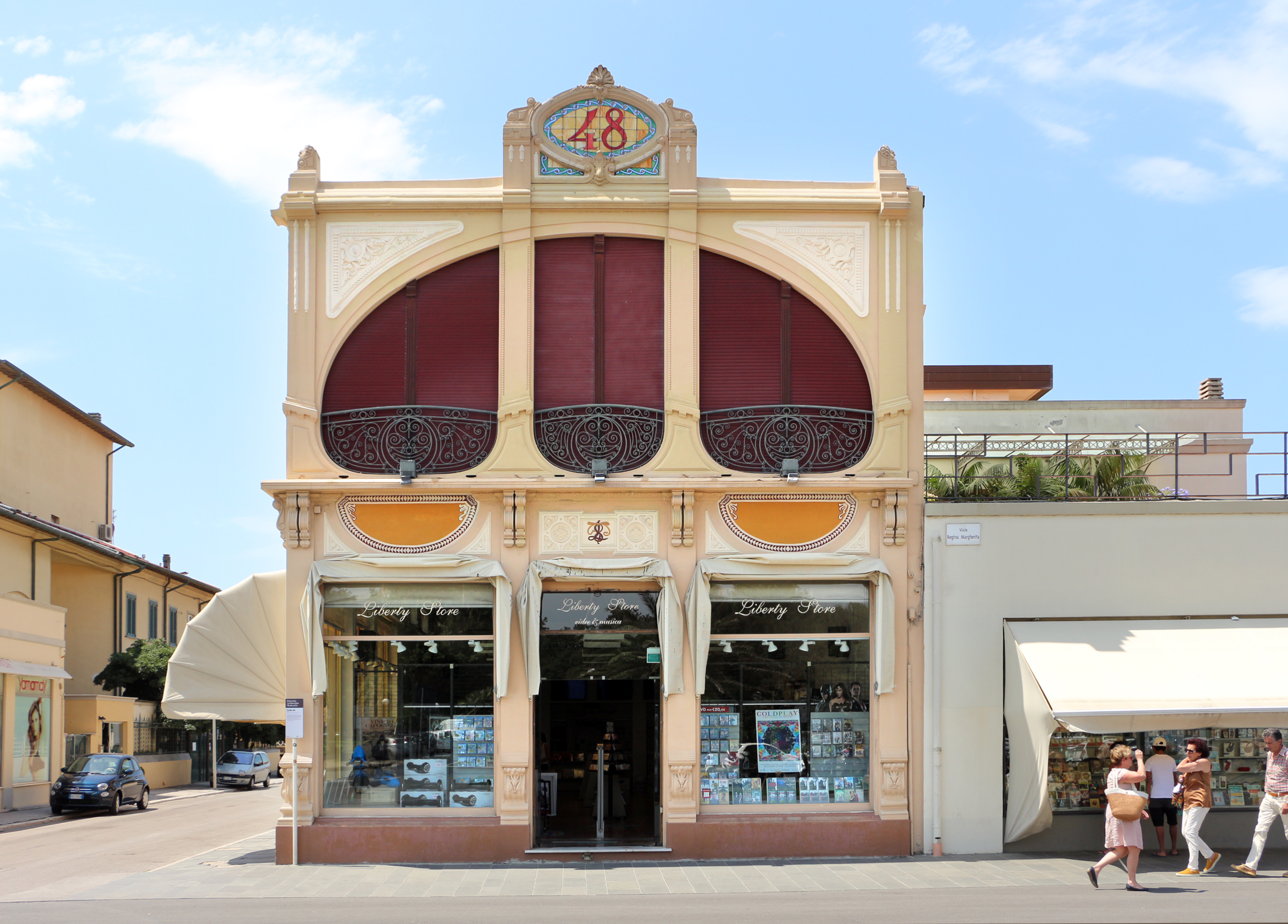 Viareggio